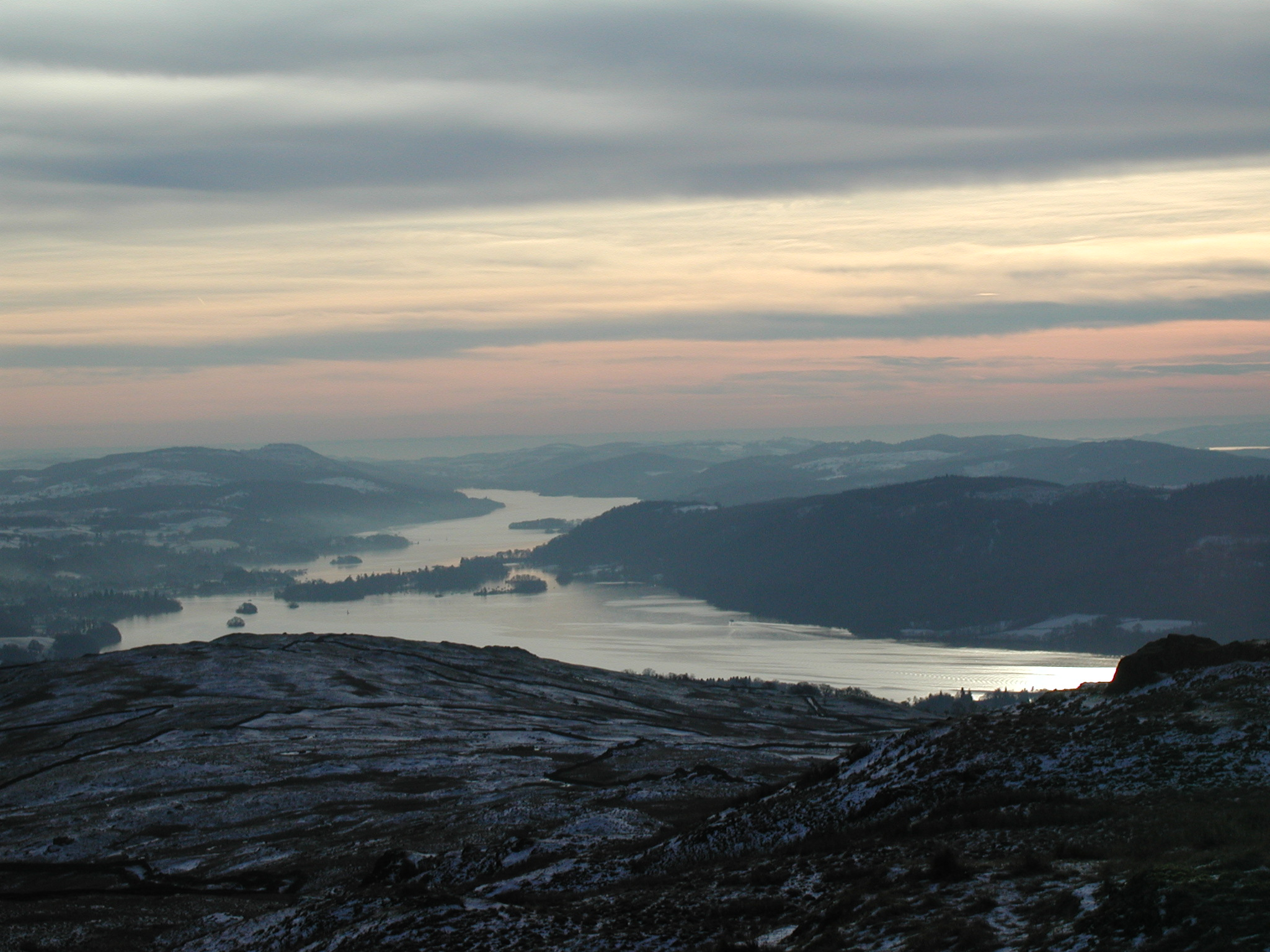 Lake District: Late December afternoon sky over Windermere, photographed from Wansfell.